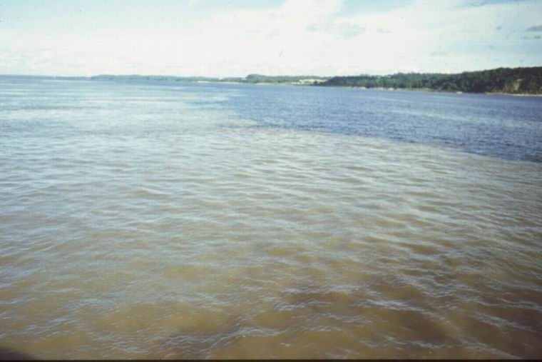 Tapajós created by he:משתמש:בן הטבע